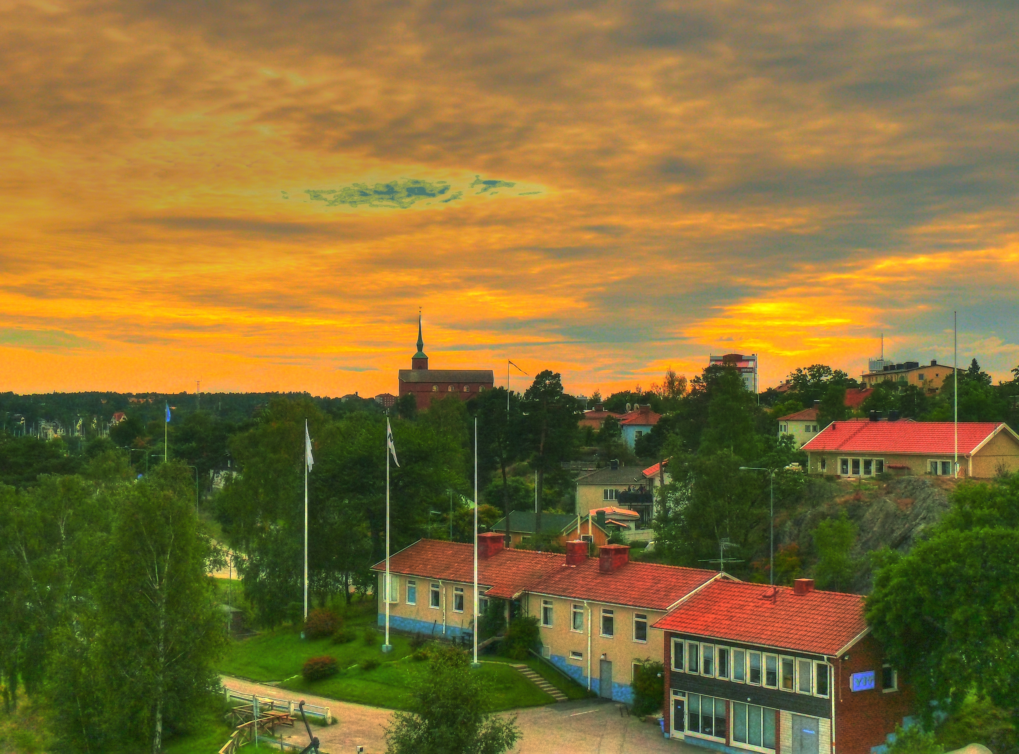 View to Nynäshamn